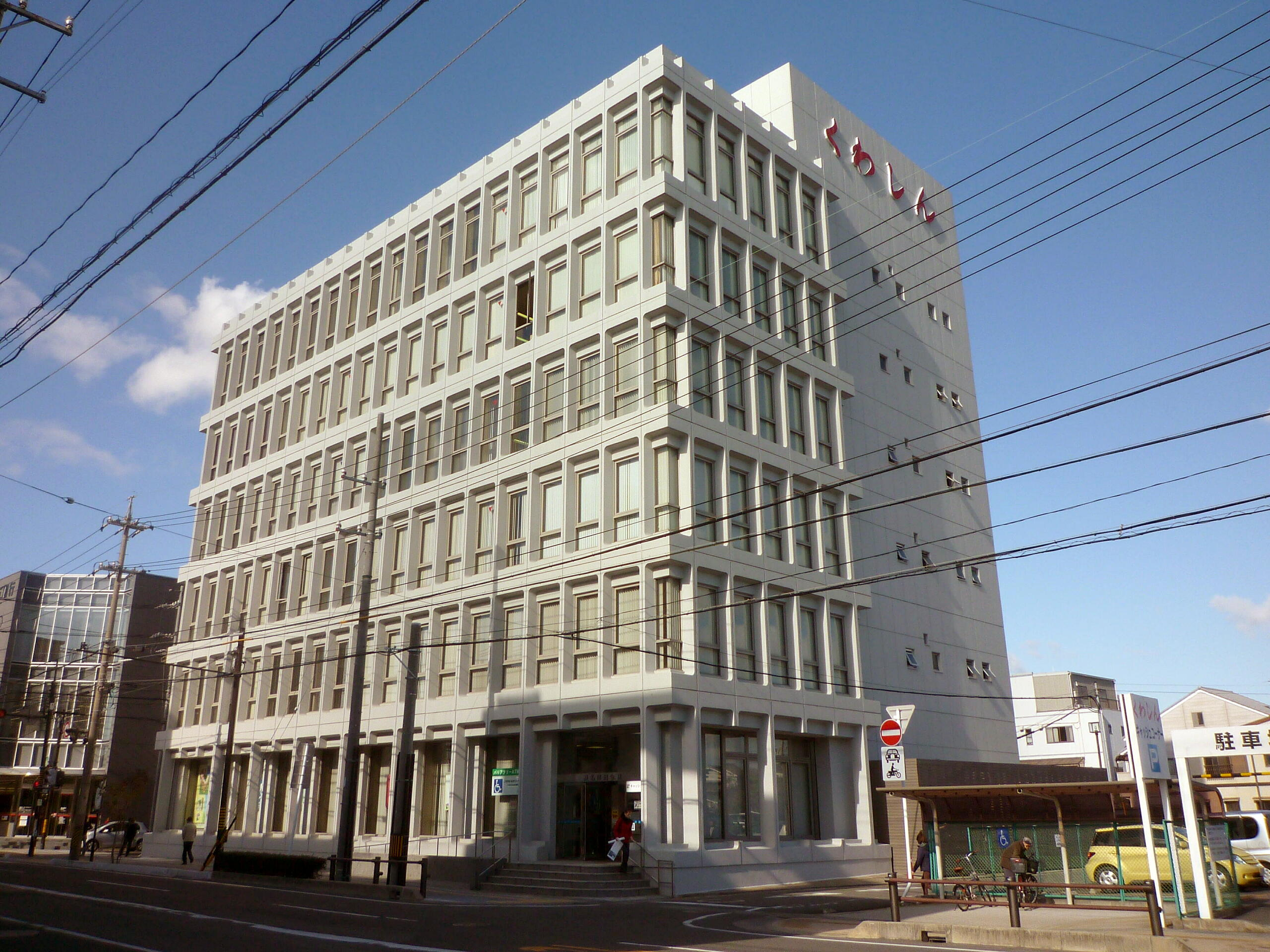 Head Office of The "Kuwana Shinkin Bank" in Daiō-chō, Kuwana, Mie, Japan.